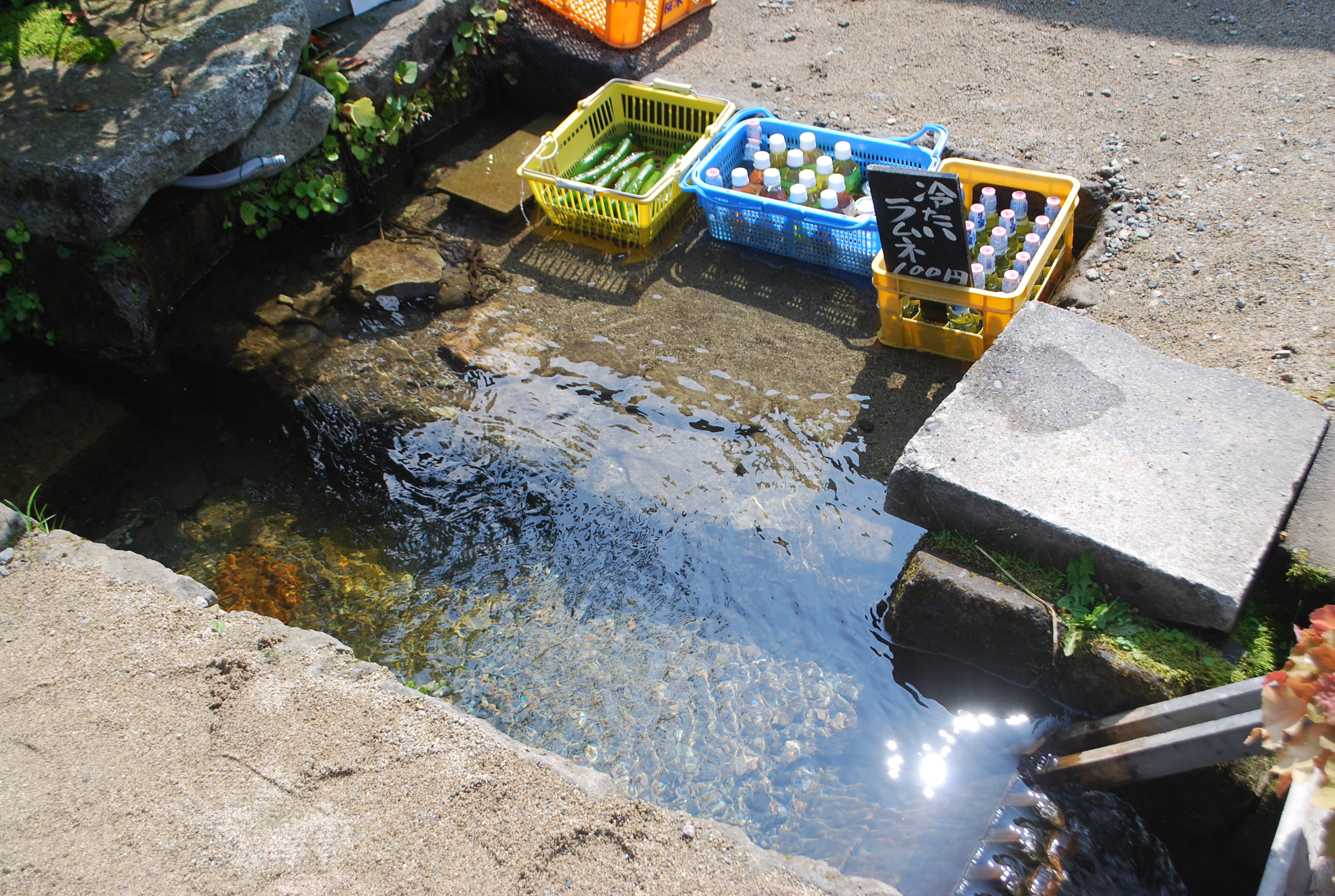 Washing place and waterway,Ouchi-jyuku,Shimogo-town,Japan